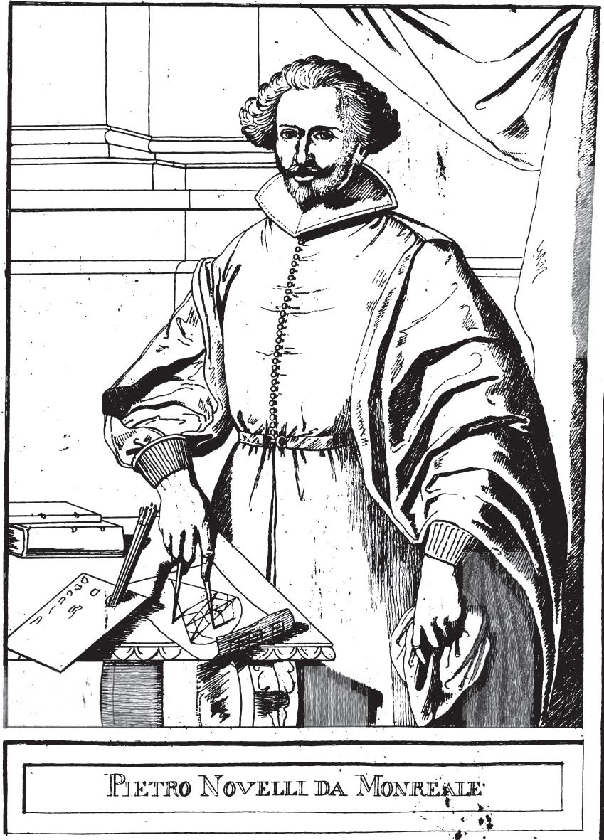 Portrait of Pietro Novelli